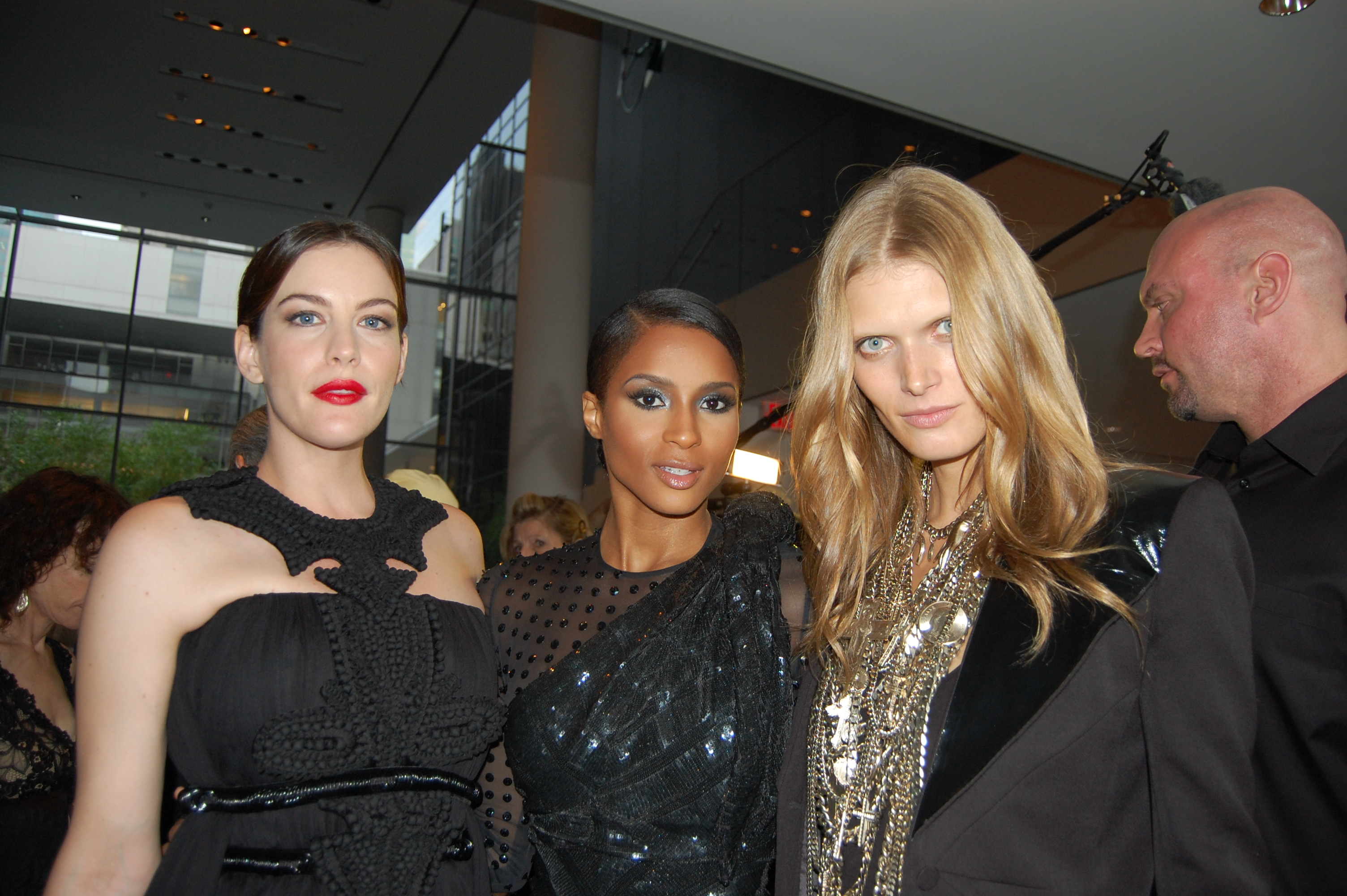 Liv Tyler, Ciara and Małgosia Bela, March 2007